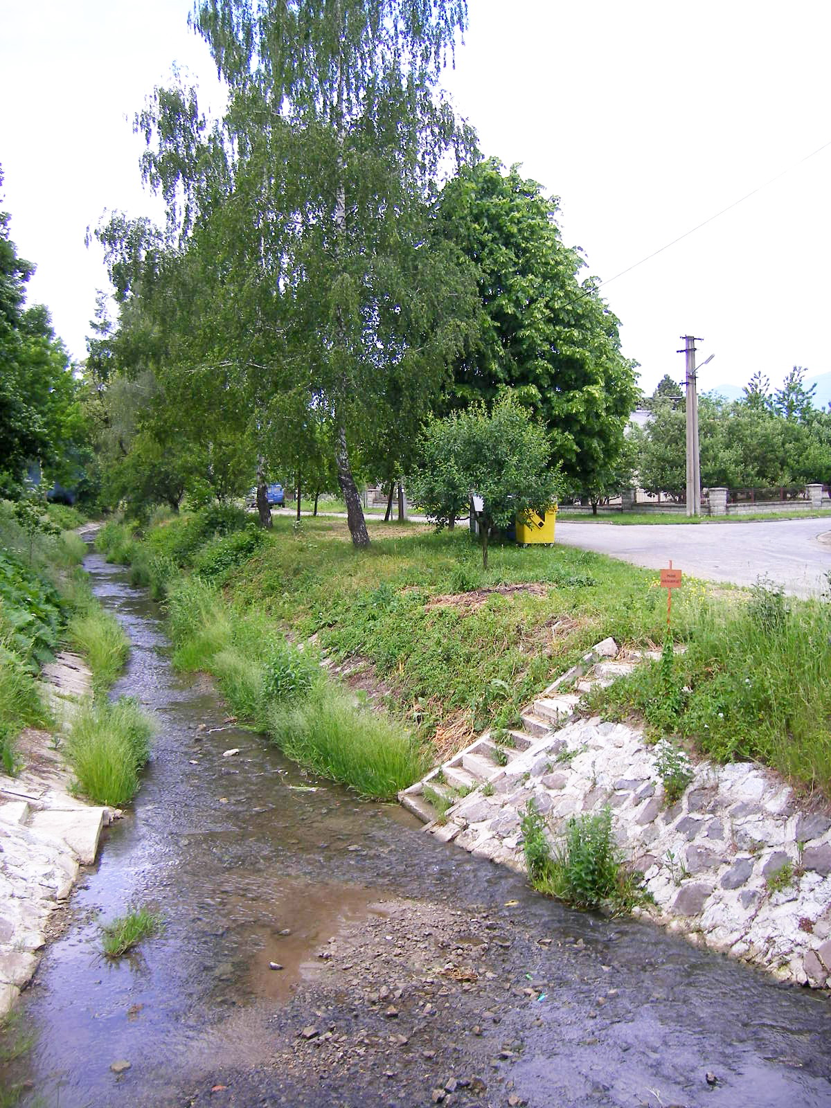 Dražkovce - Sklabinský potok